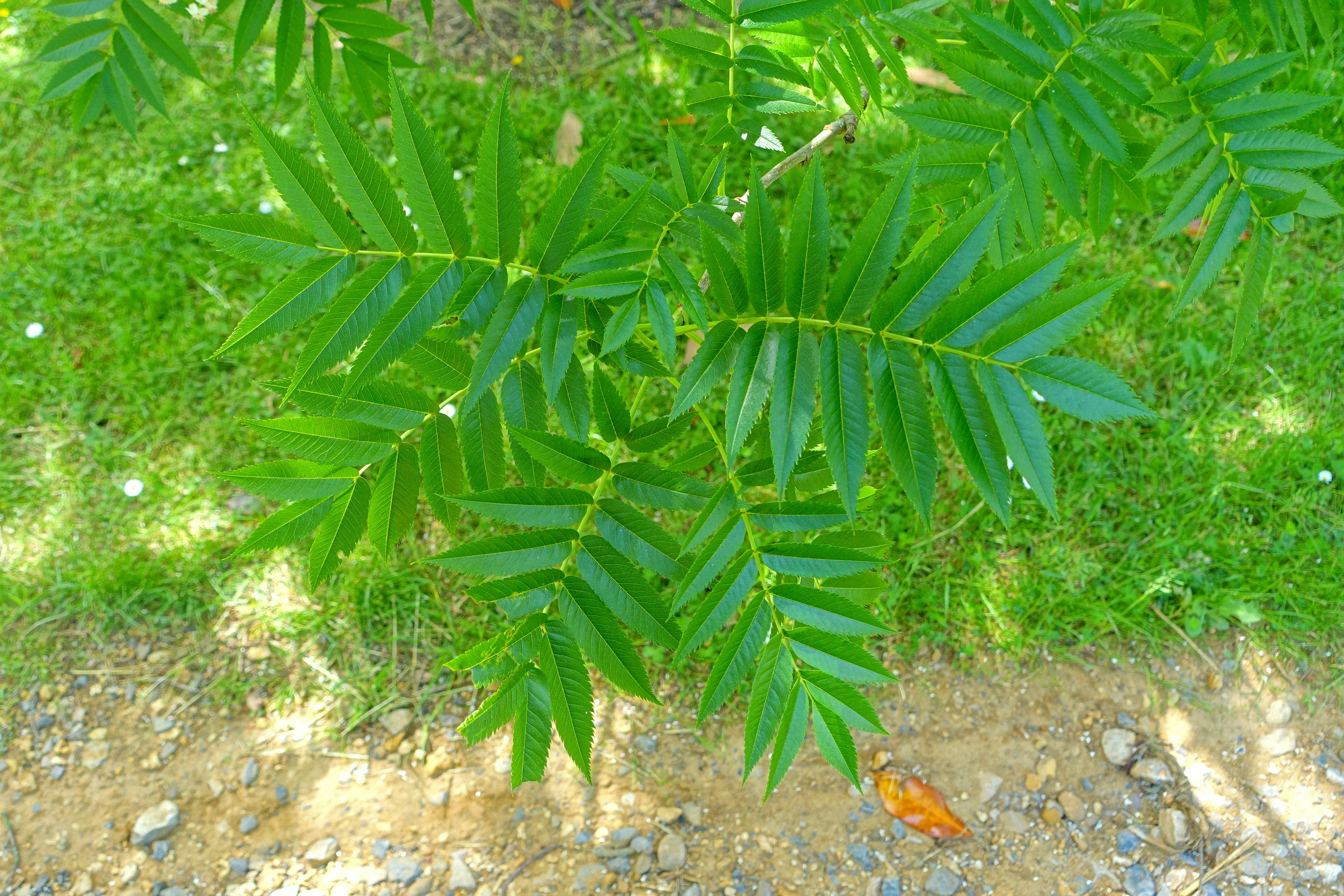 Horticultural specimen in Savill Garden - Windsor Great Park, England.